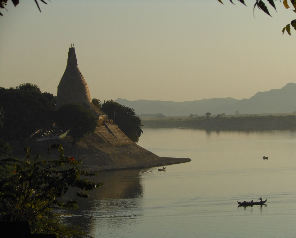 Temple on the Irrawaddy